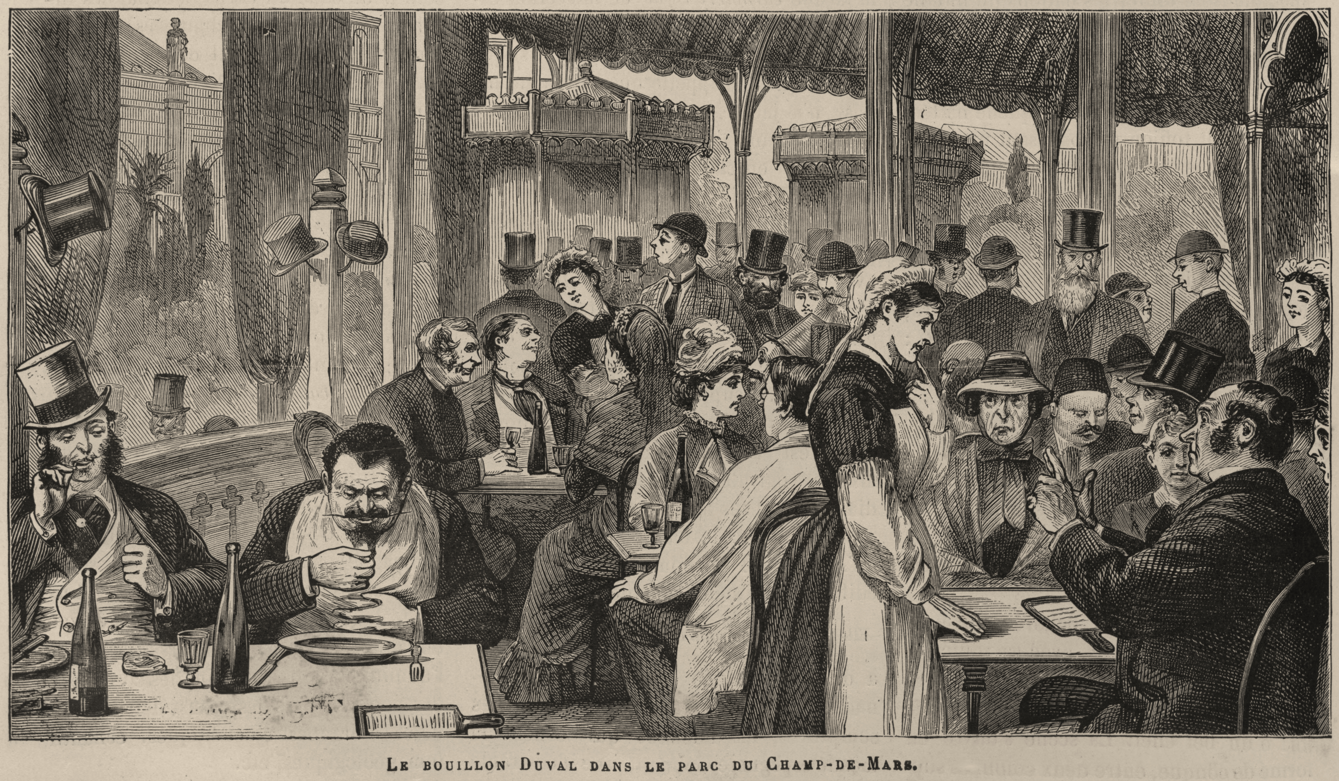 The restaurant Duval was one of the many eateries at the 1878 Paris World Fair. It was located next to the École militaire, on the Champ-de-Mars. Visitors from many different countries would come and have lunch there. The article accompanying this print adds that the communication between the waitresses and the (mainly british) visitors was not always easy, as suggested by the puzzled look of the woman serving the group of customers on the right corner of the image.